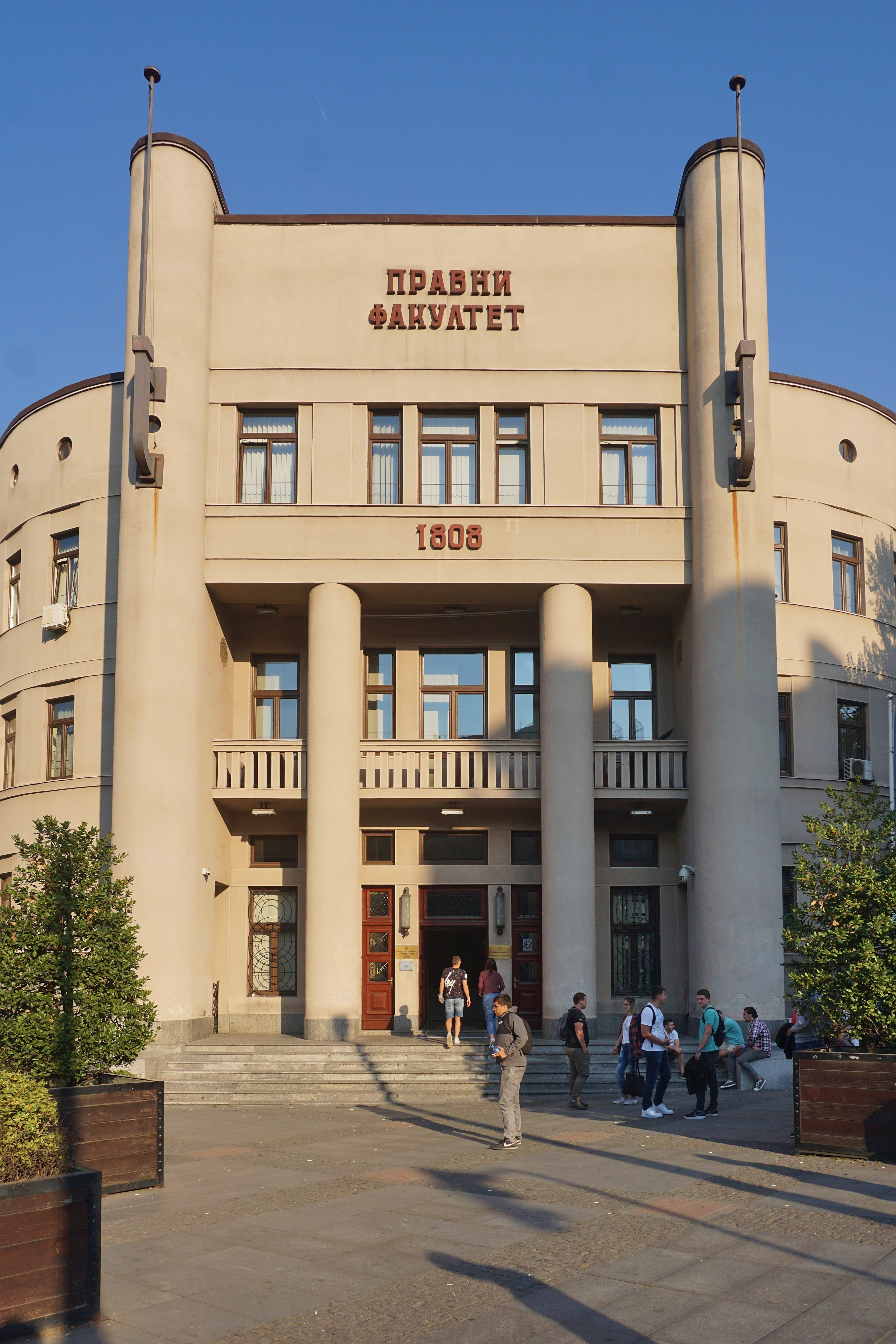 Zgrada Pravnog fakulteta u Beogradu